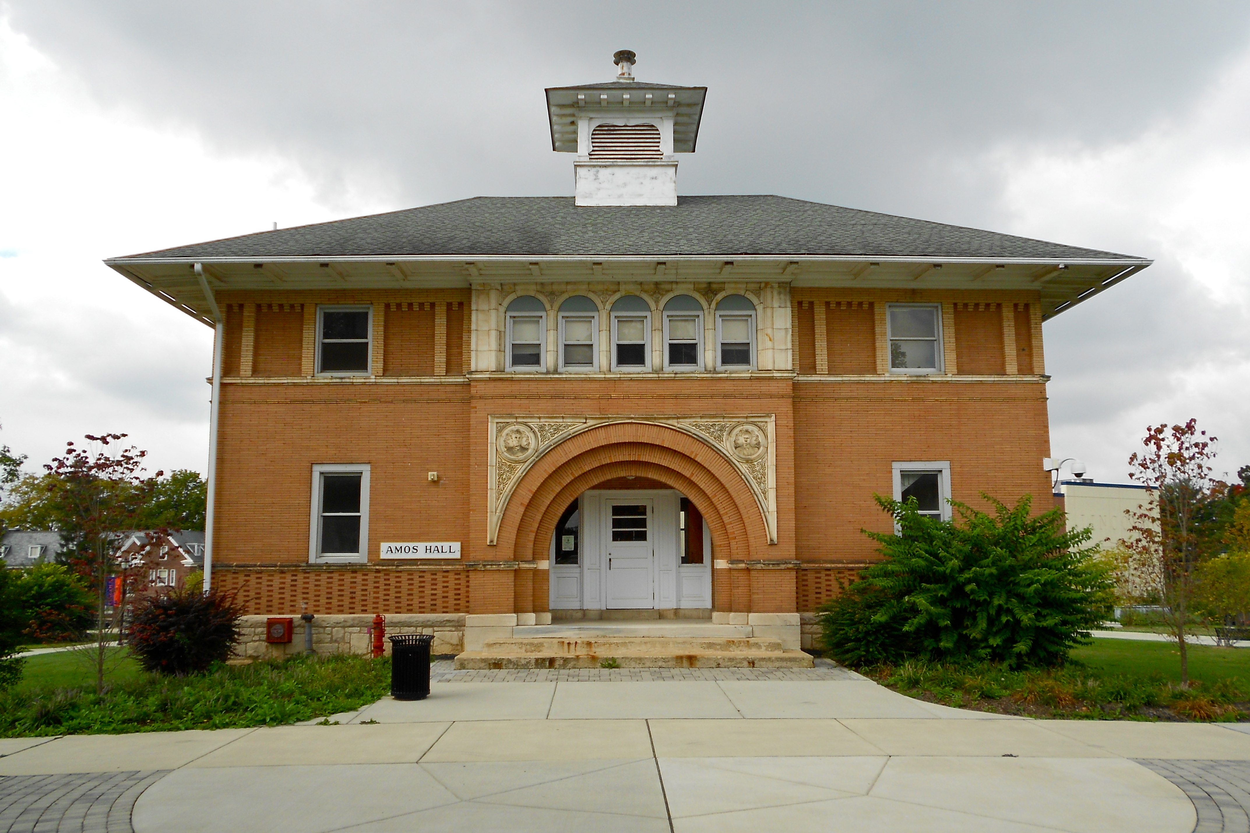 Amos Hall at Lincoln University near Oxford, Pennsylvania